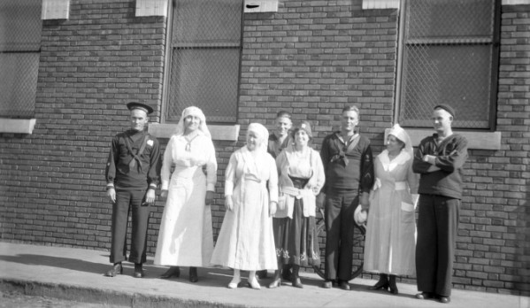 Four men in sailor uniforms standing with four women, at least two of whom are Red Cross nurses.